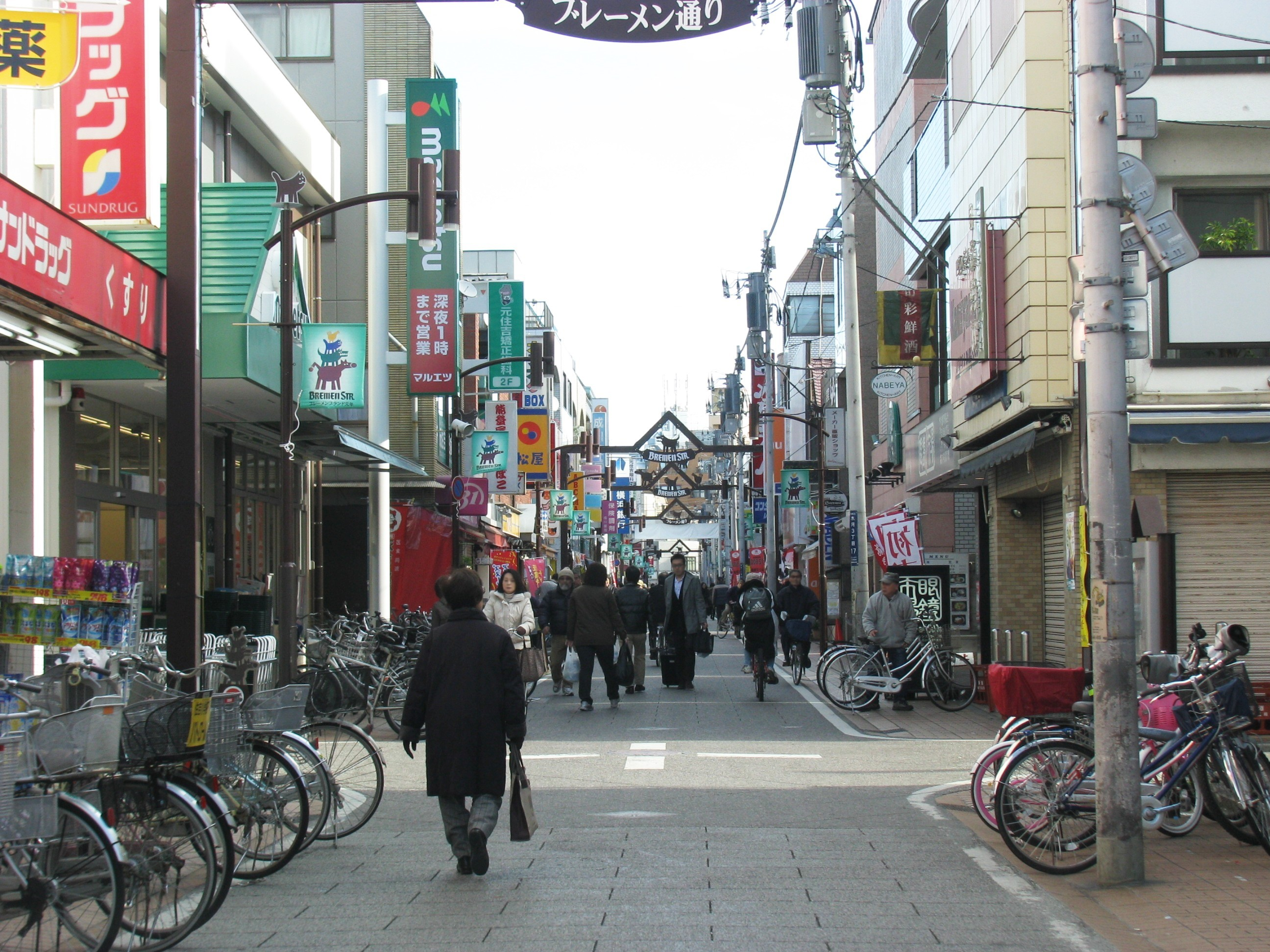 The Bremen street. This place is west of Motosumiyoshi Station on Tōkyū Tōyoko Line, in Nakahara, Kawasaki, Kanagawa, Japan.